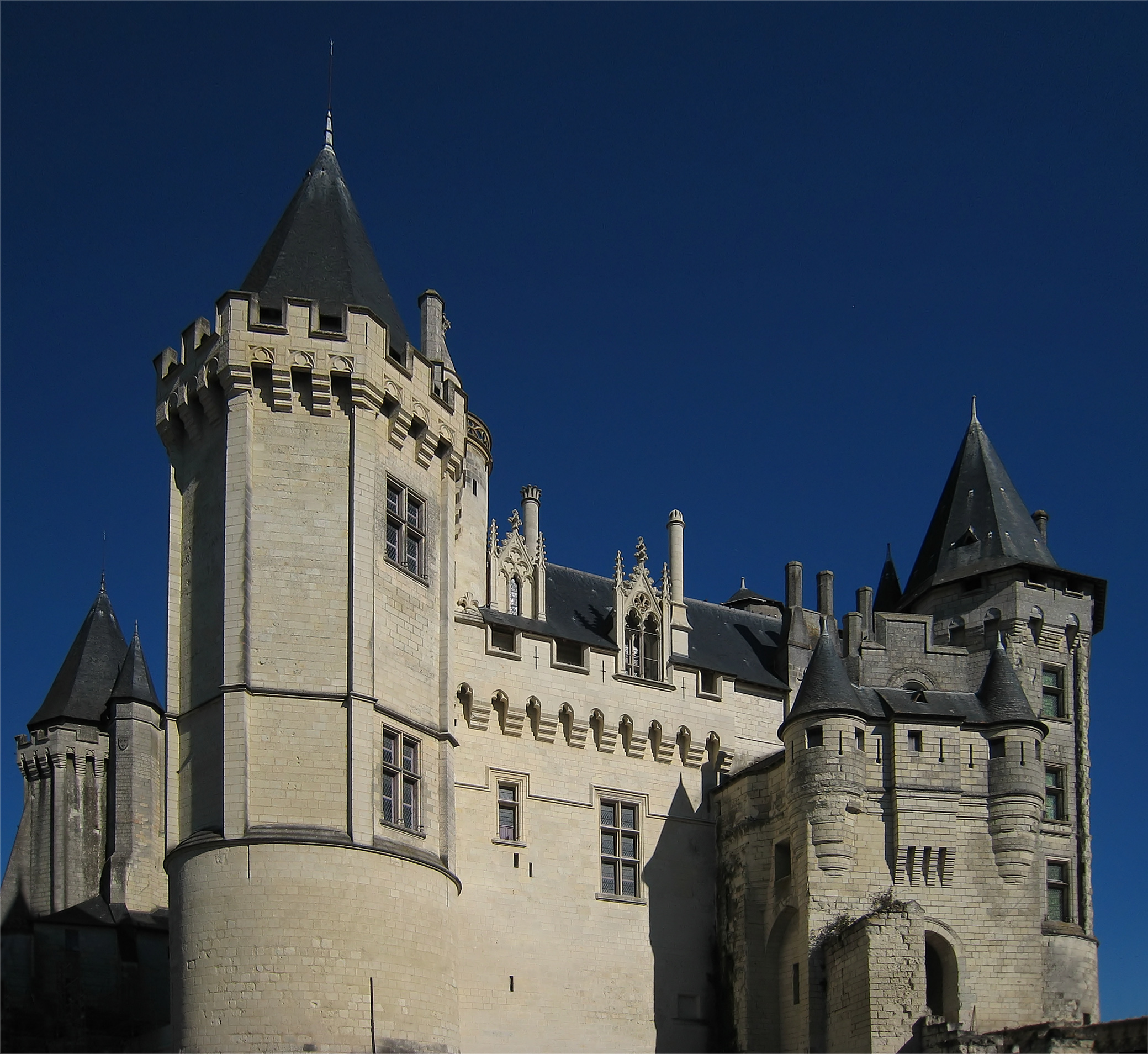 Castle Saumur, located on the river Loire in the county of Maine-et-Loire/France